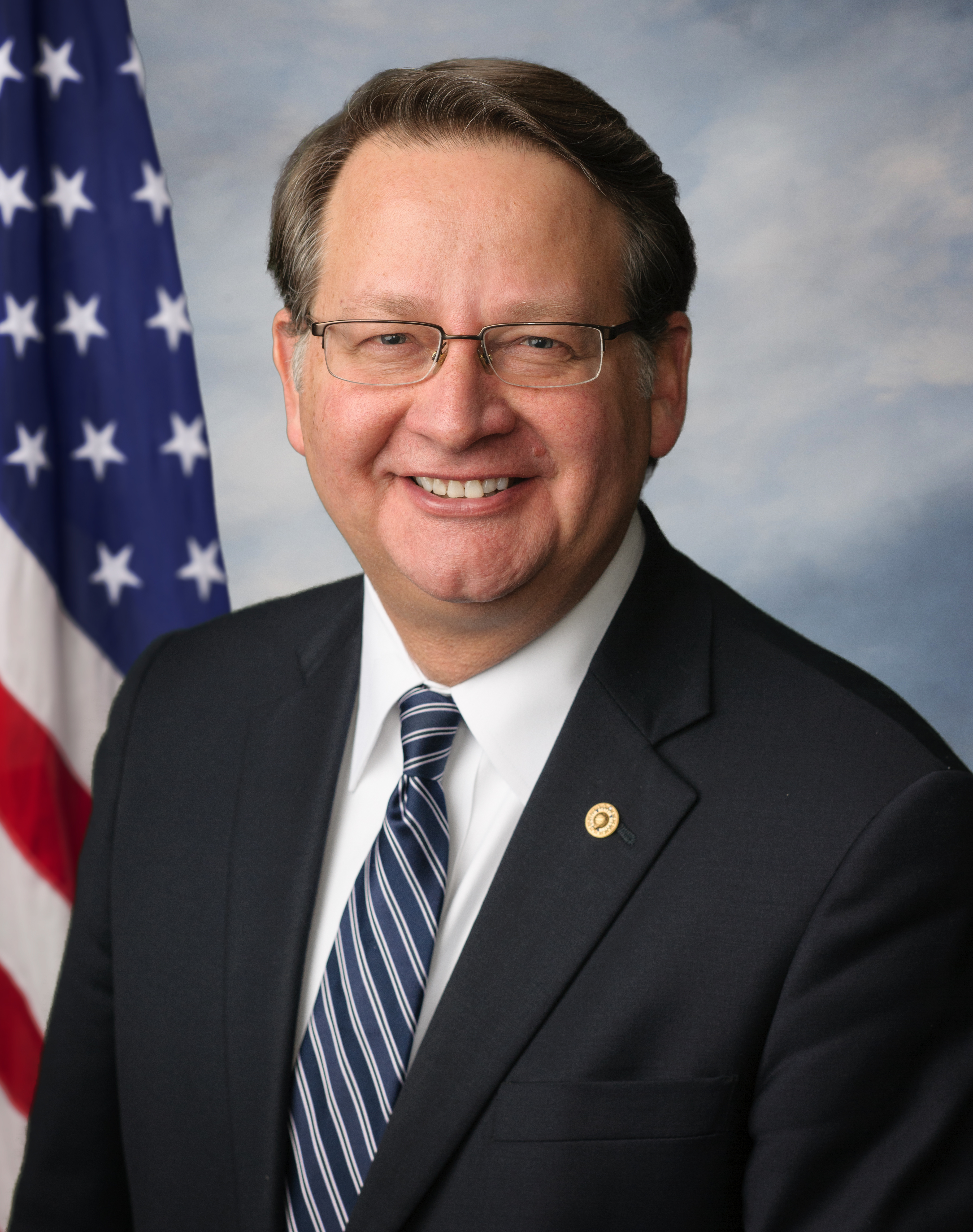 Official portrait of U.S. Senator Gary Peters (D-MI)